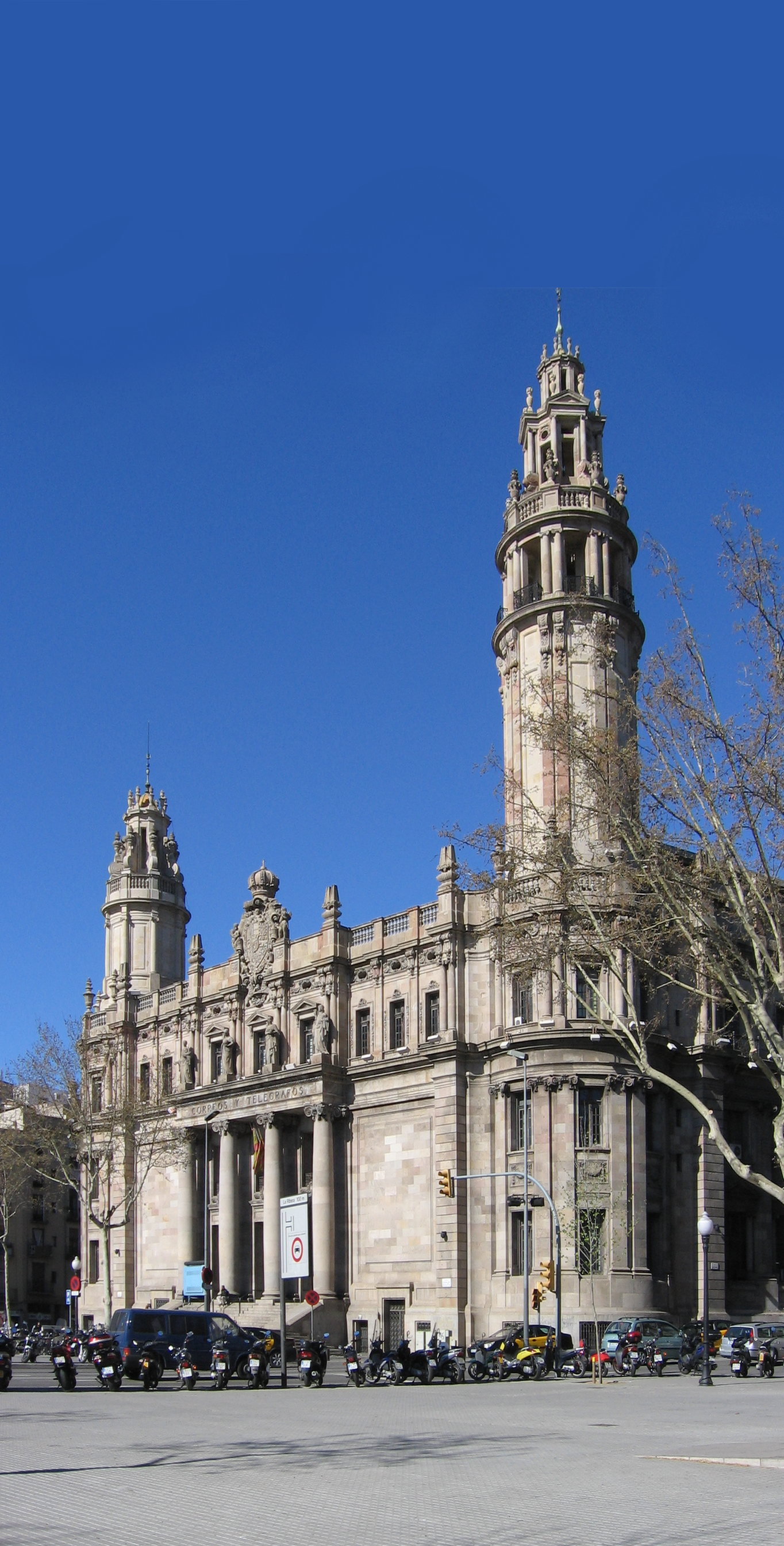 Main Post office at Passeig de Colom, Barcelona , Catalonia, Spain.